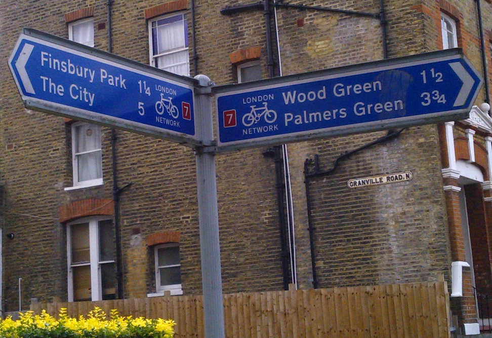 Signage (A Pointer) for the London Cycle Network Route 7 with Destinations and Distances that the route passes through.